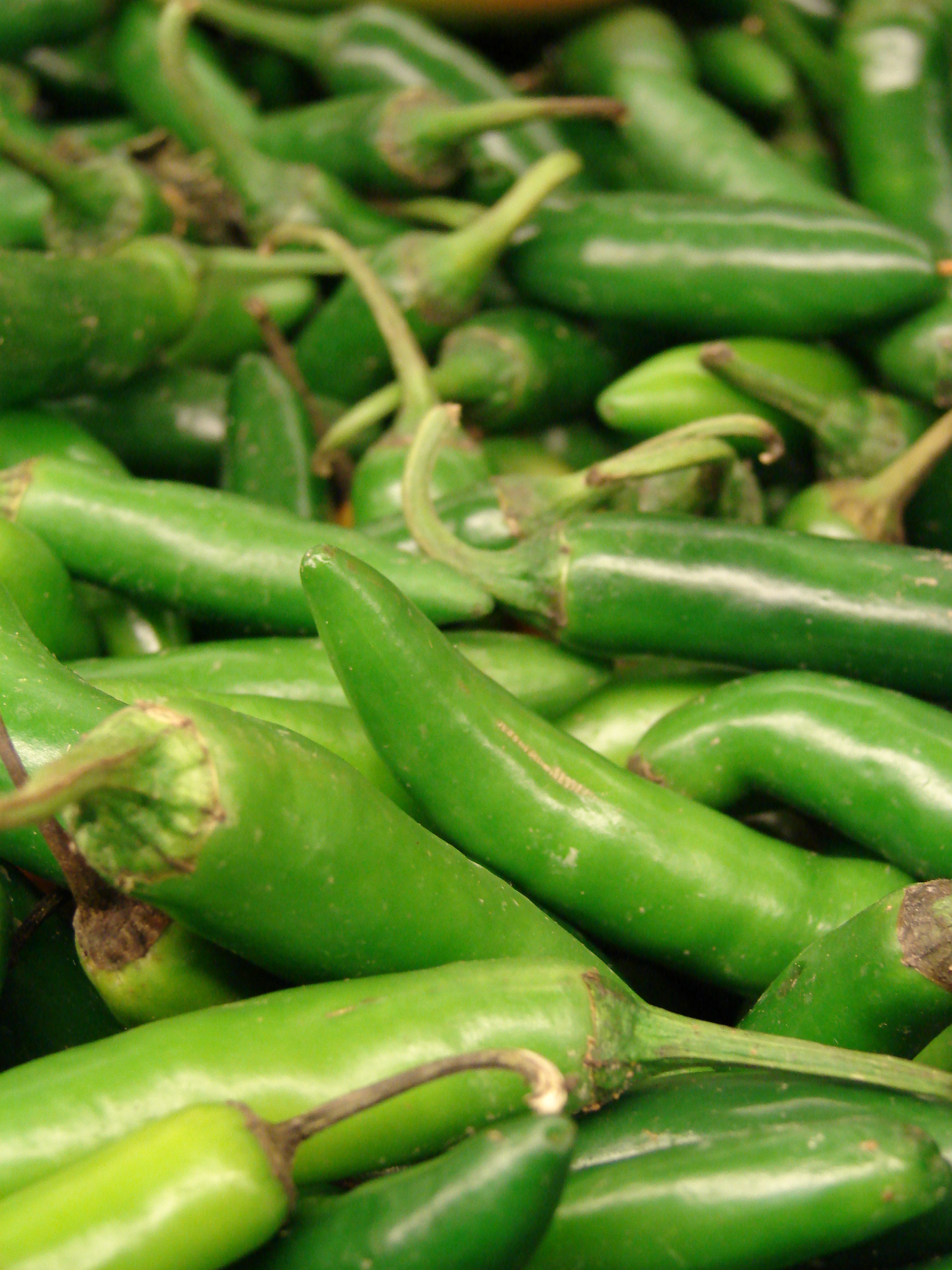 Capsicum annuum (Serrano variety). Location: Maui, Foodland Pukalani